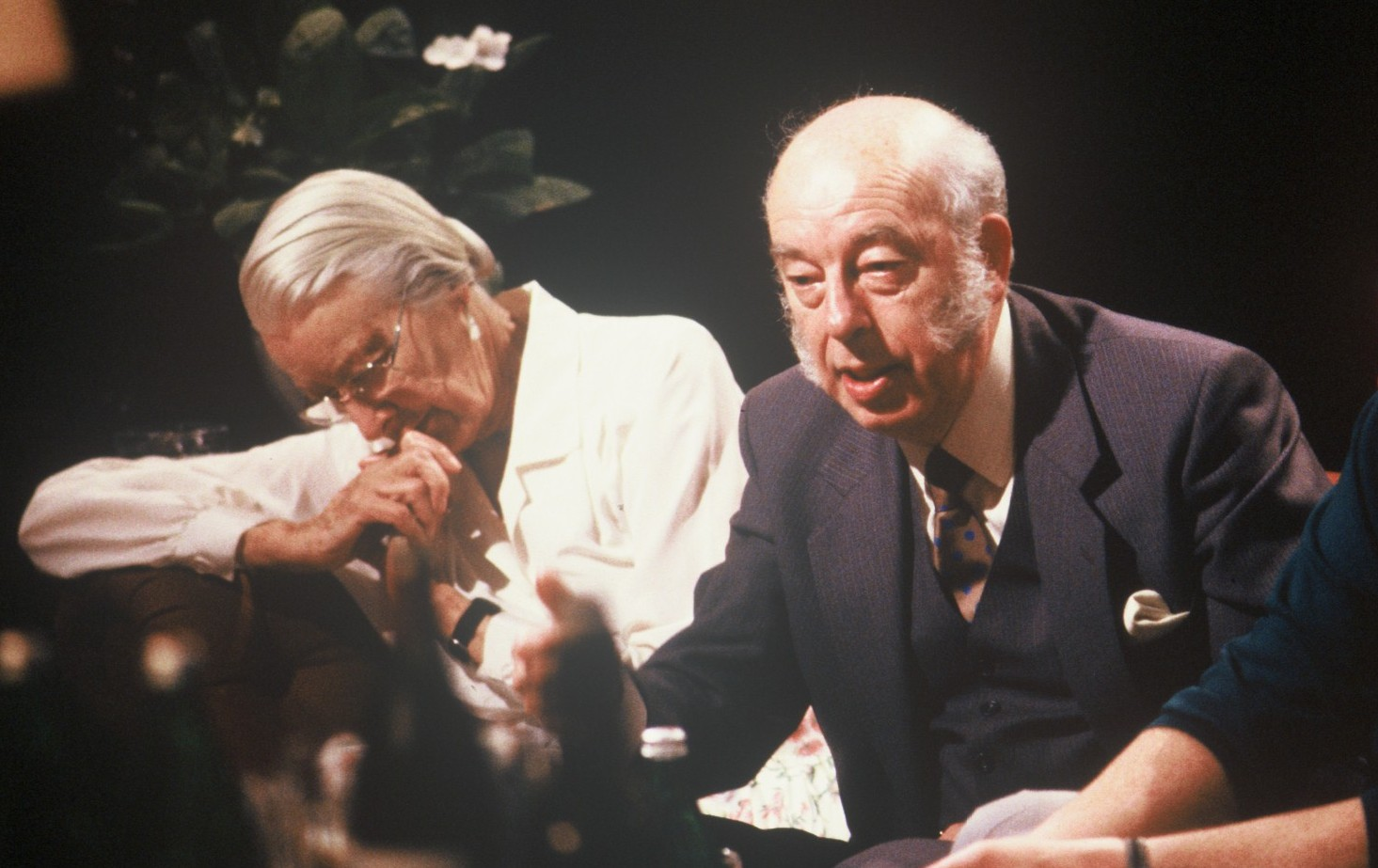 Margaret Simey and Rhodes Boyson appearing on After Dark on 20 May 1989. Other guests included Peter Garrett, Garth Crooks and Cass Pennant. More here.